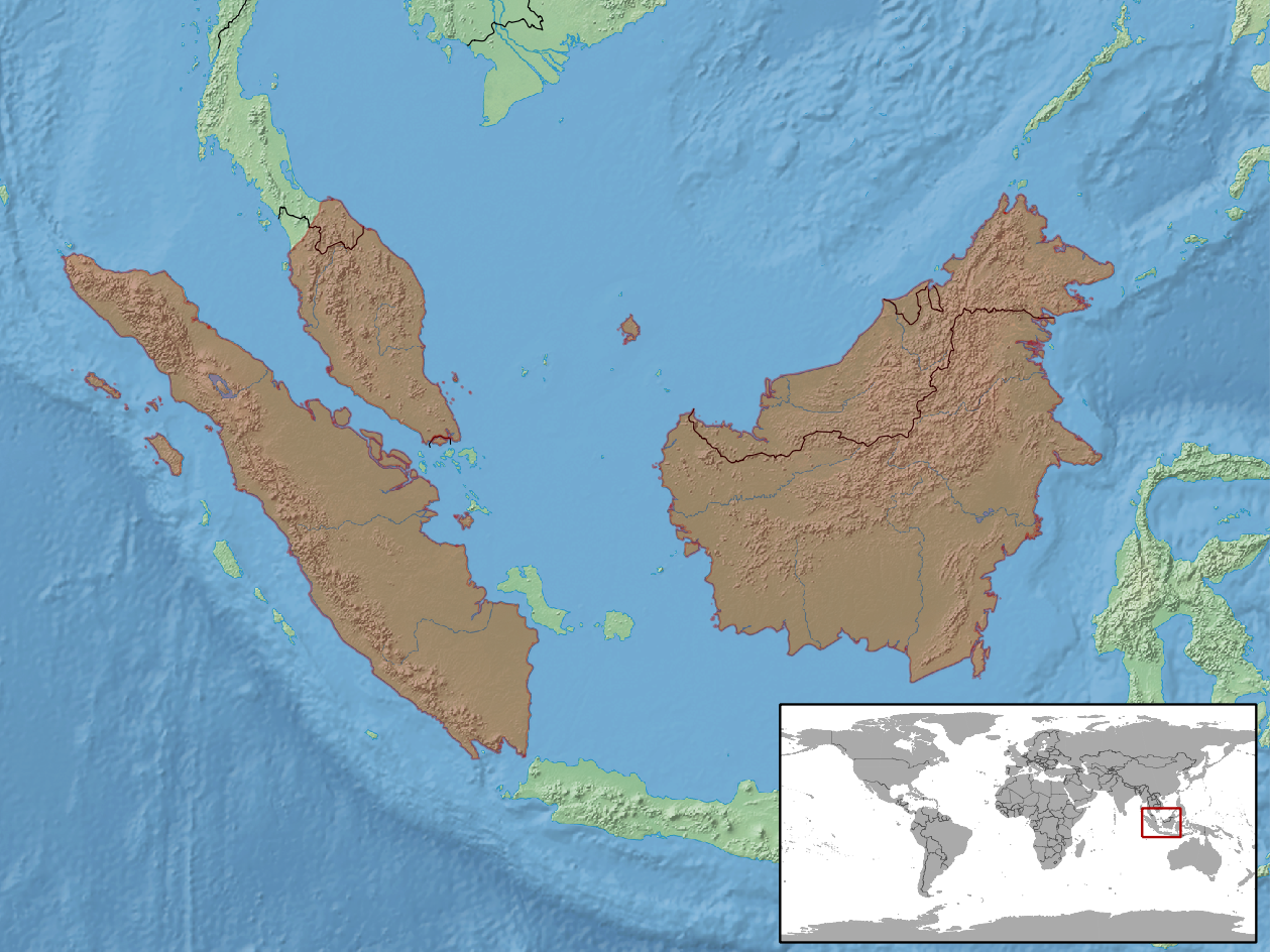 geographic distribution of Aphaniotis fusca (Native: Indonesia; Malaysia; Singapore; Thailand)